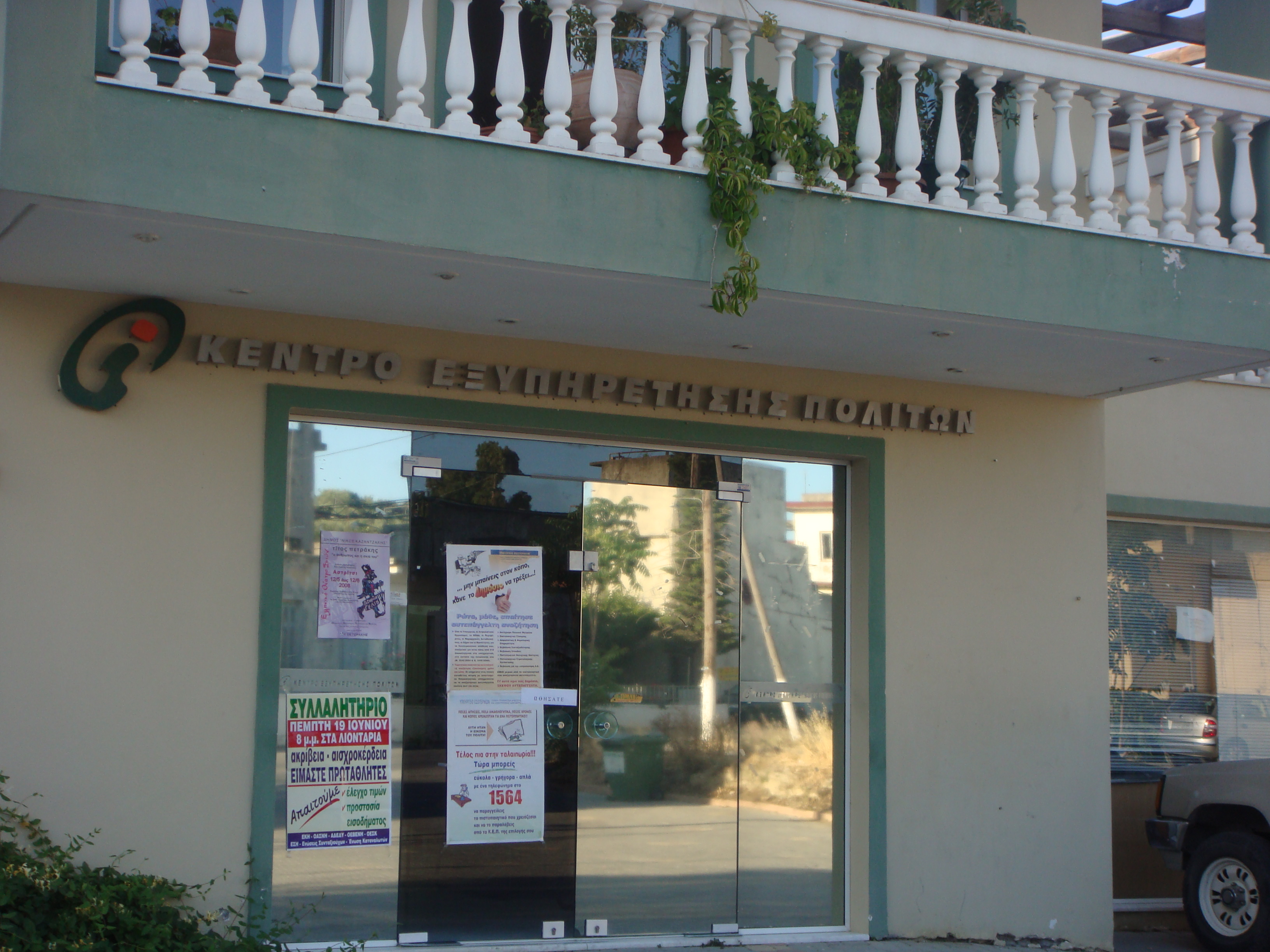 The Centre for Citizen's Service , known in Greek as KEP, in Peza, the seat of Dimos Kazantzaki, in Iraklion prefecture.